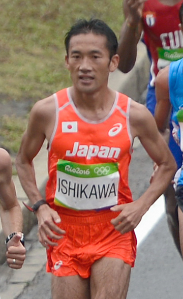 Rio de Janeiro - Sob chuva forte atletas da maratona masculina passam pelo aterro do Flamengo (Tânia Rêgo/Agência Brasil)